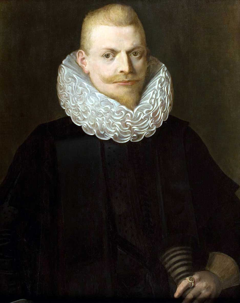 Franco Petri Burgersdijk also: Burgersdicius; (1590–1635) Dutch classical scholar